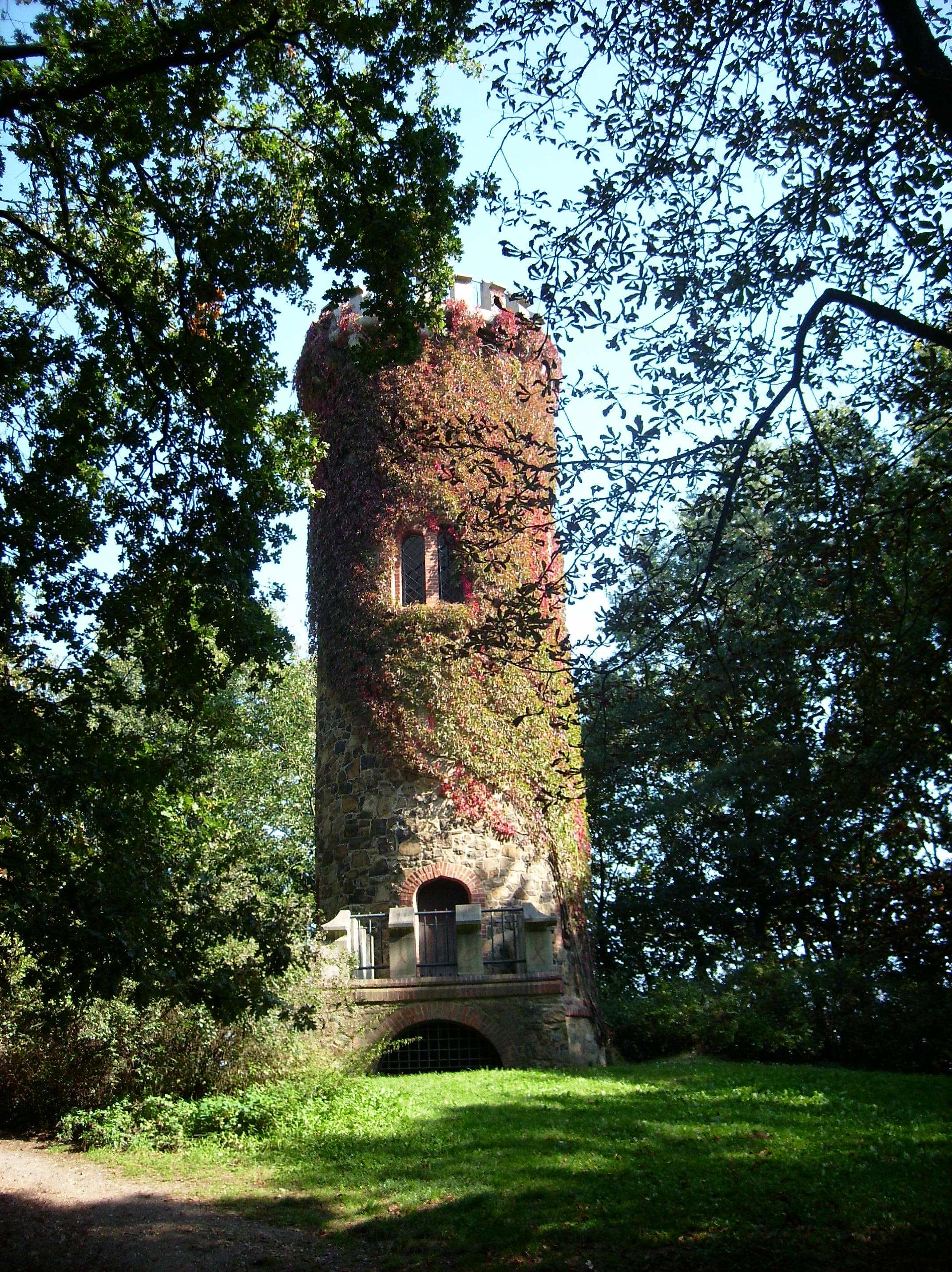 Bismarck Tower at Jutta's Park, Höfgen (Grimma, Leipzig district, Saxony)